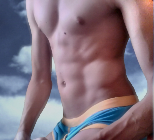 Picture made with mobile phone camera and edited with PaintShop